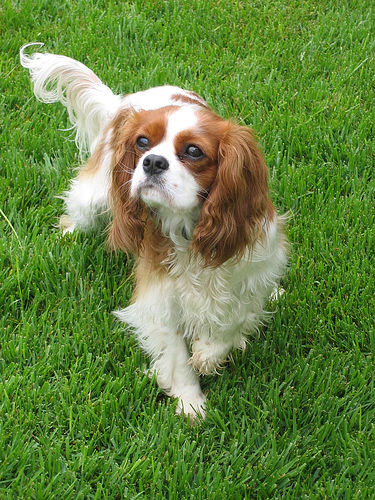 Spot (Nordictouch Never Say Never), Cavalier King Charles Spaniel. Seal Beach, California.